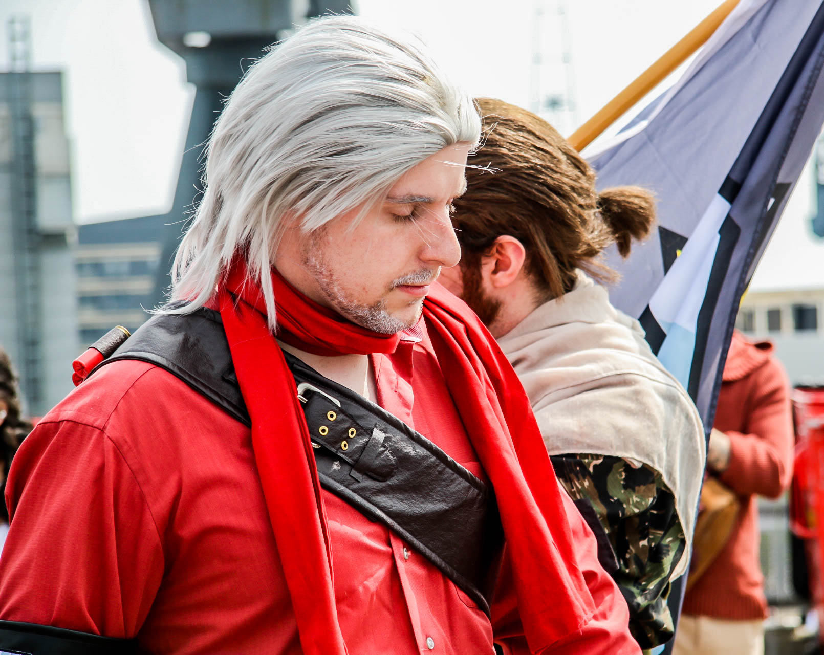 Cosplay at MCM London Comic Con in May 2016.